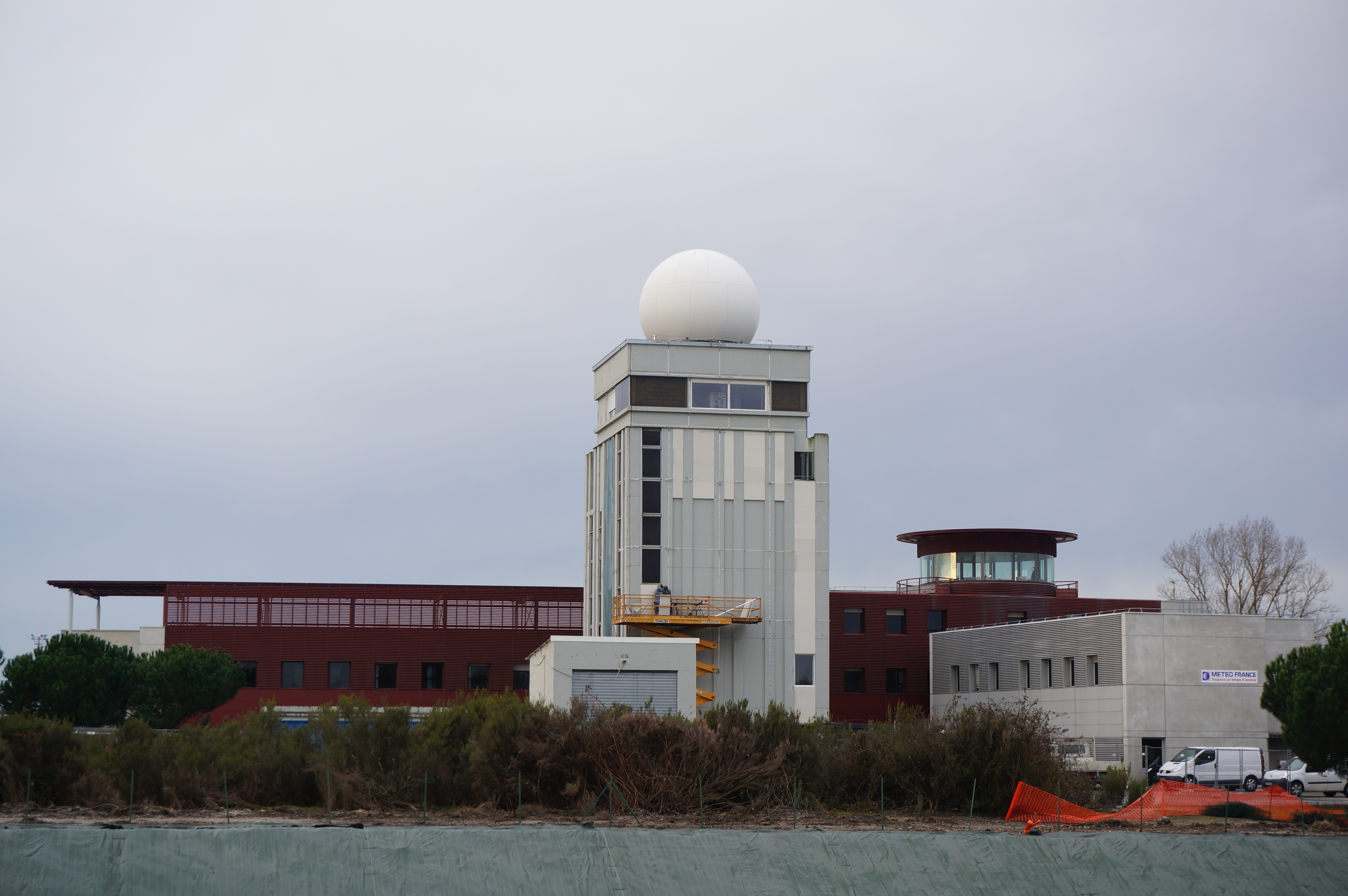 Weather station at Merignac (Gironde, France) with C-band radar.